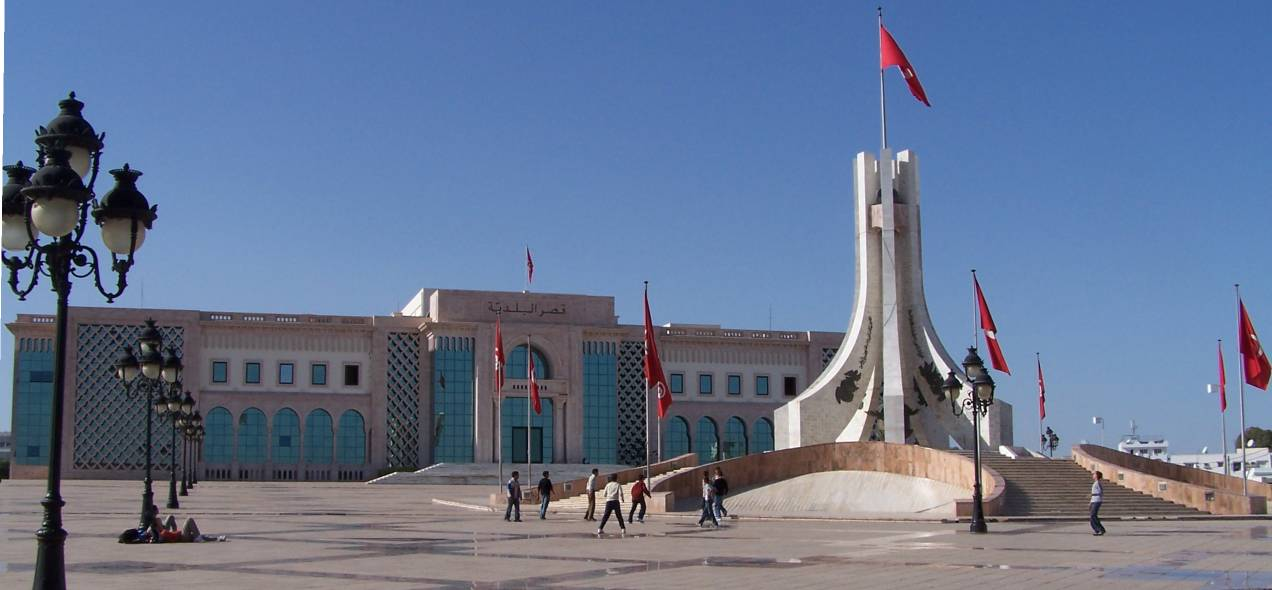 (c) 2005, Niels Elgaard Larsen Maison du Parti, Tunis.